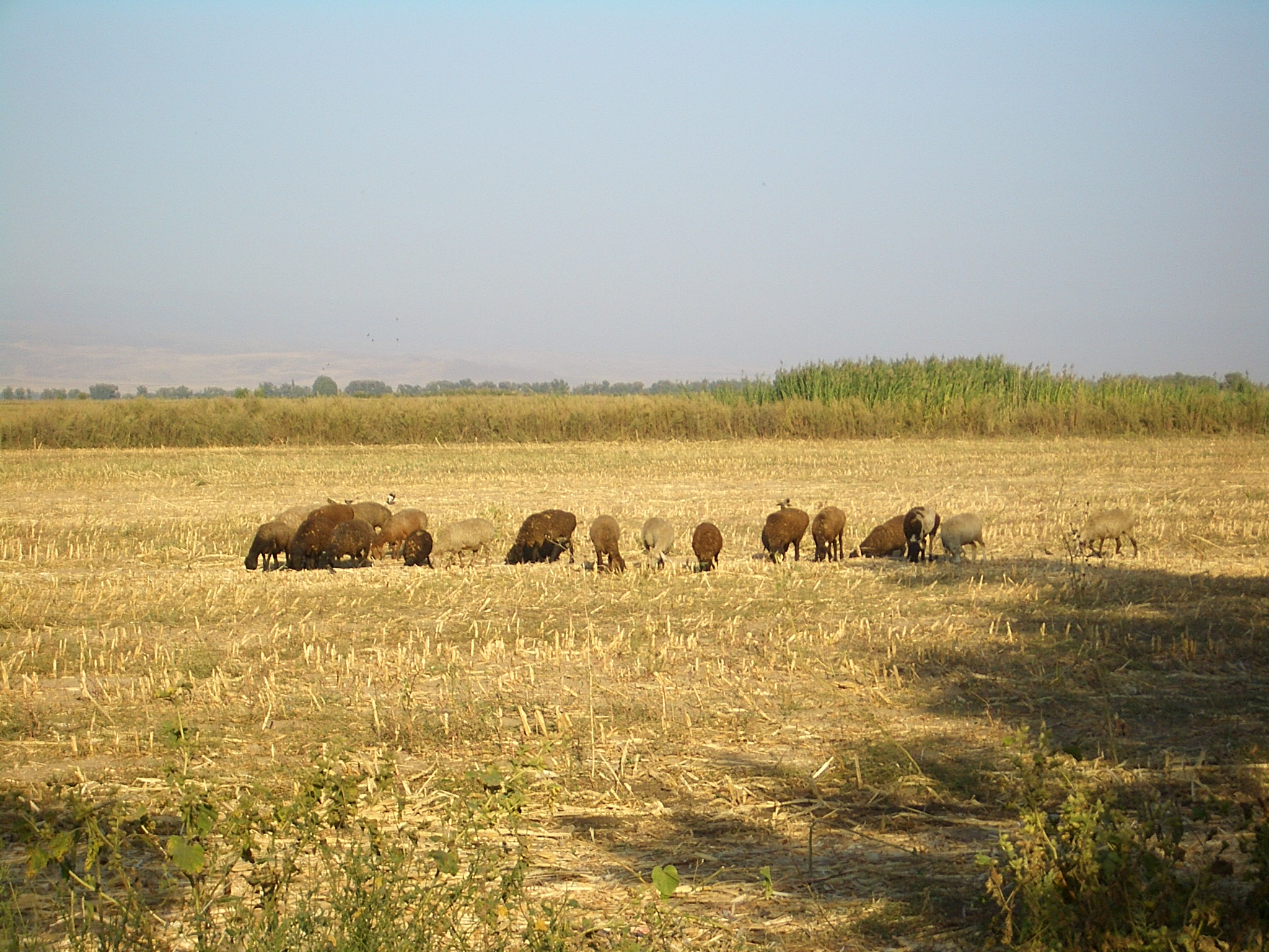 Sheep grazing south of Milyanfan village in the Chuy Valley, Chuy Province of Kyrgyzstan